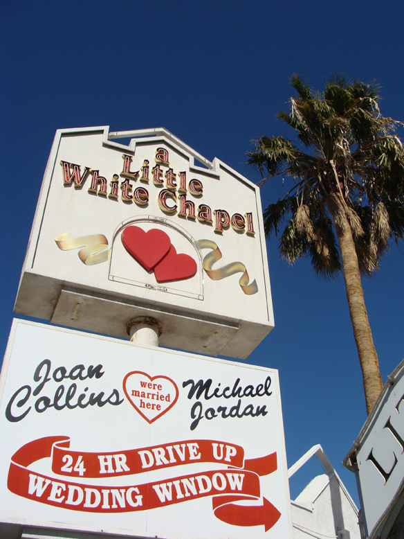 Little white chapel(Las Vegas, USA) known for its 24hour drive through wedding service.